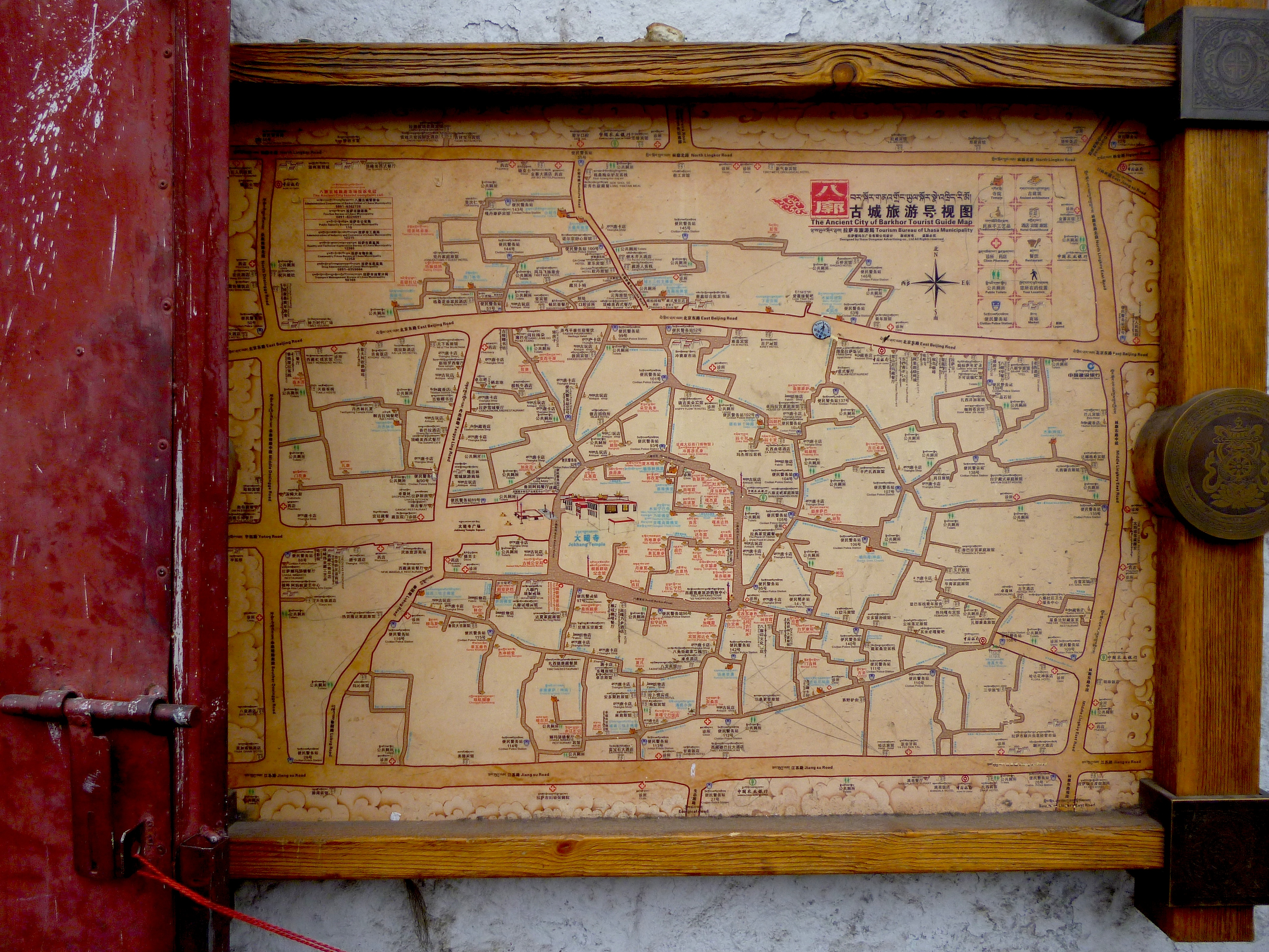 City-Map of Old-Town Lhasa